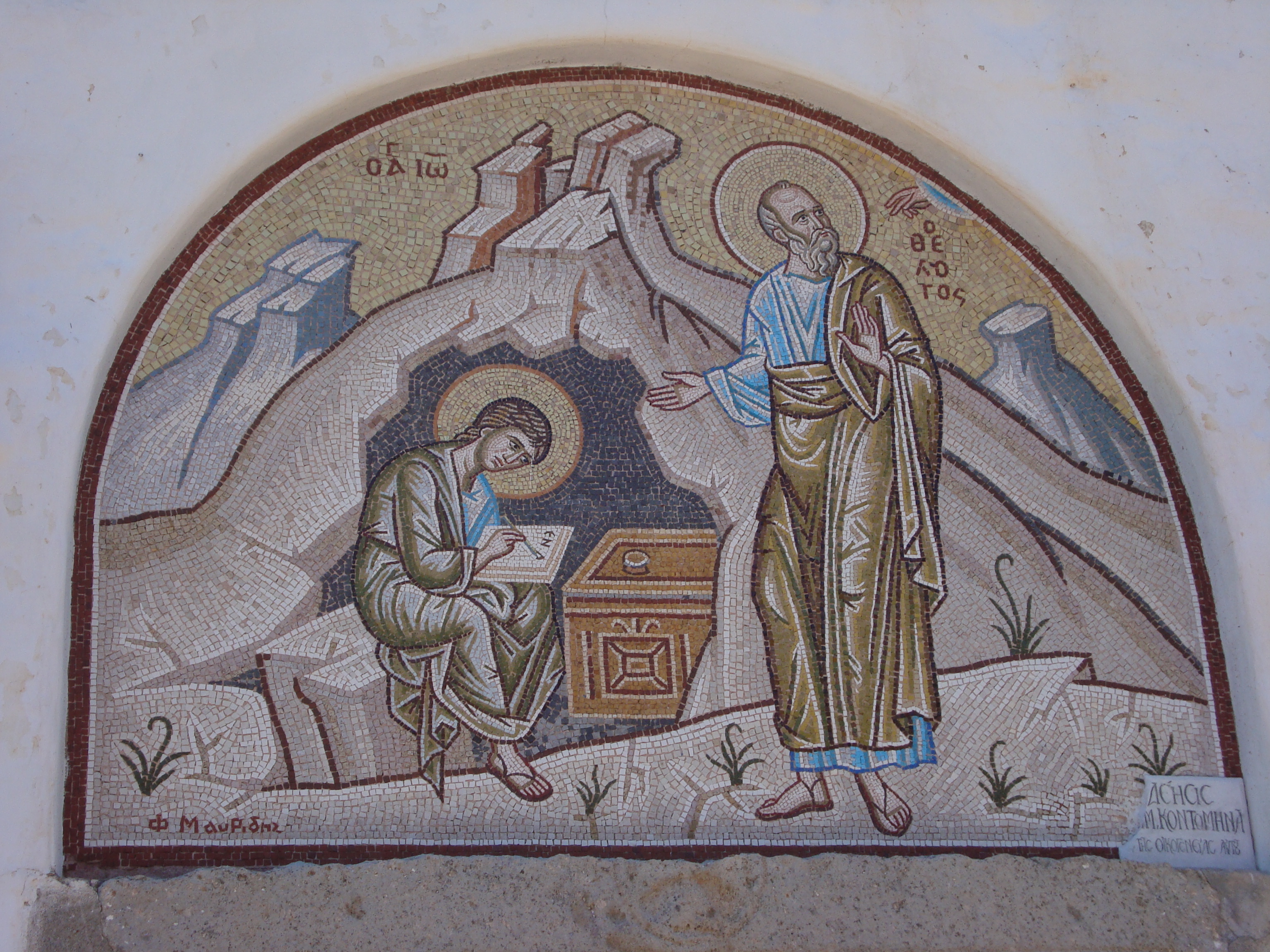 Mosaic above the entrance to the Cave of the Apocalypse, Patmos, Greece